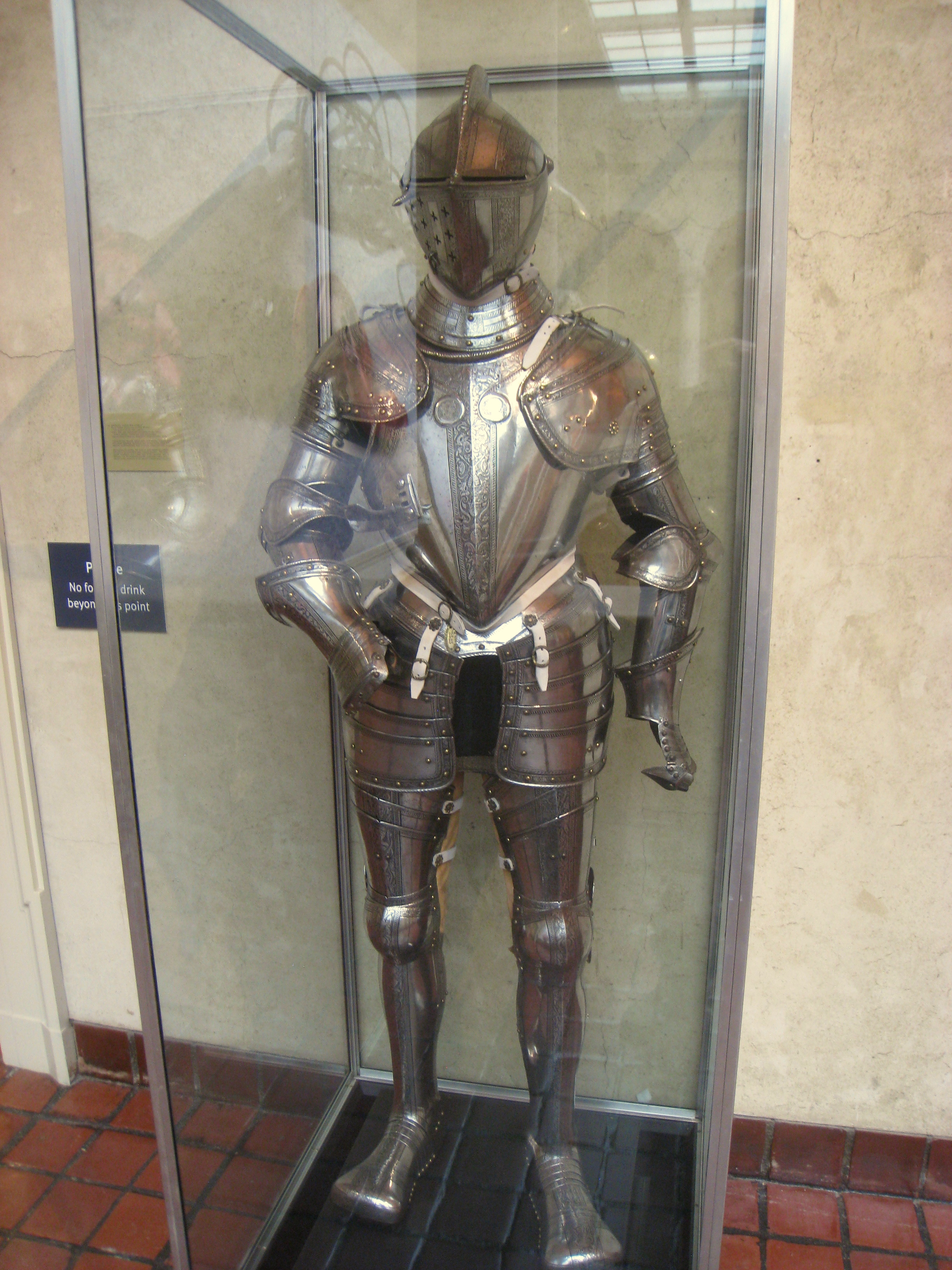 Complete Armor for Combat, North Italian, last quarter of 16th century, in the Worcester Art Museum, Worcester, Massachusetts, USA. The museum permits photography and does not restrict usage of the photographs.